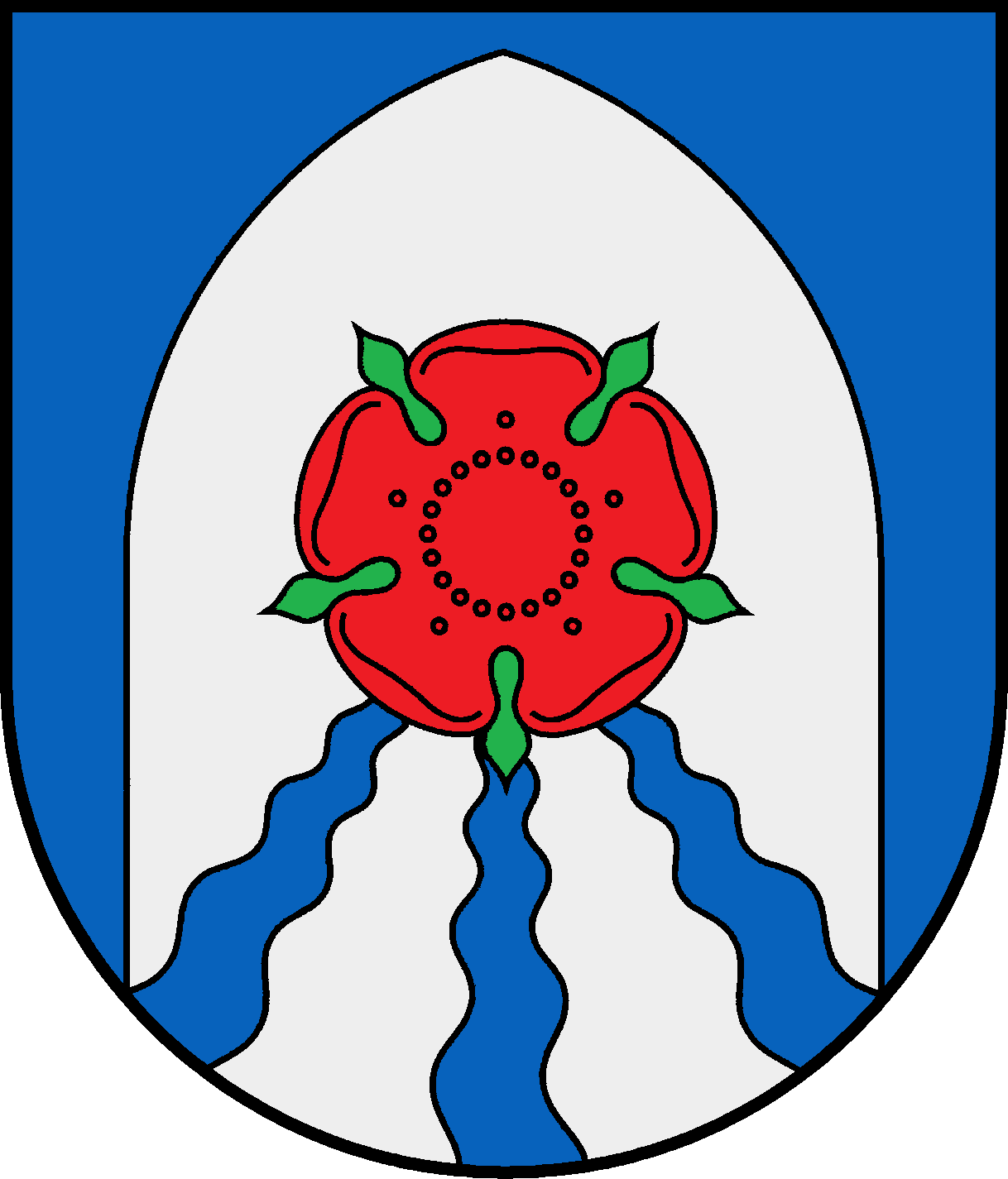 Coat of arms of the municipality Kirchnüchel in Schleswig-Holstein, Germany.